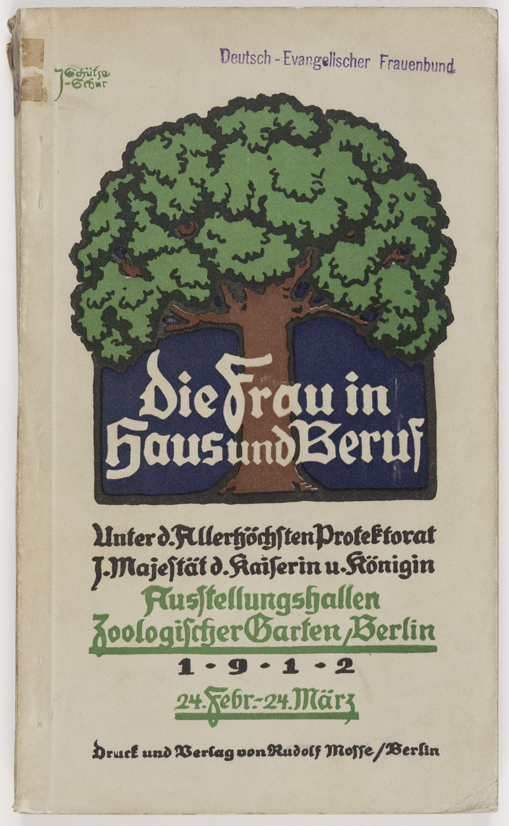 "Die Frau in Haus und Beruf" (The Woman in House and Profession), Catalogue of exhibition in Zoologischen Garten Berlin, paper, print, Berlin 1912. Foto of catalogue in repository of Archivs der deutschen Frauenbewegung (Archive of German Women's Movement), Kassel. Photographer: Horst Ziegenfusz on behalf of Historisches Museum Frankfurt (Historical Museum Frankfurt. Published in Dorothee Linnemann (Ed.): Damenwahl! 100 Jahre Frauenwahlrecht. Begleitbuch zur Ausstellung. Societäts-Verlag, Frankfurt am Main 2018, ISBN 978-3-95542-306-3, S. 23.